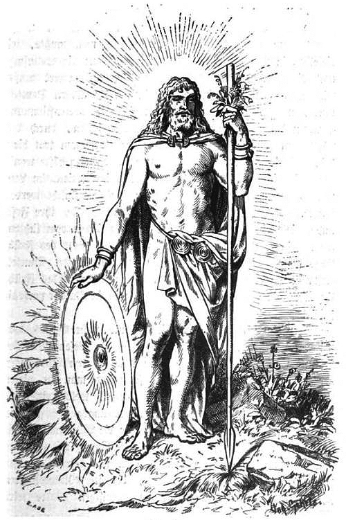 "Baldur" (1901) by Johannes Gehrts. Baldr stands clasping a hand full of plant matter against a downward-tipped spear. In his other hand is a sun-shaped shield.